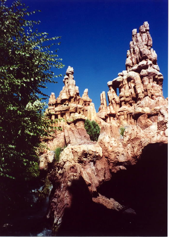 Thunder Mountain Railroad hoodoos Disneyland Taken by Ellen Levy Finch (User:Elf)